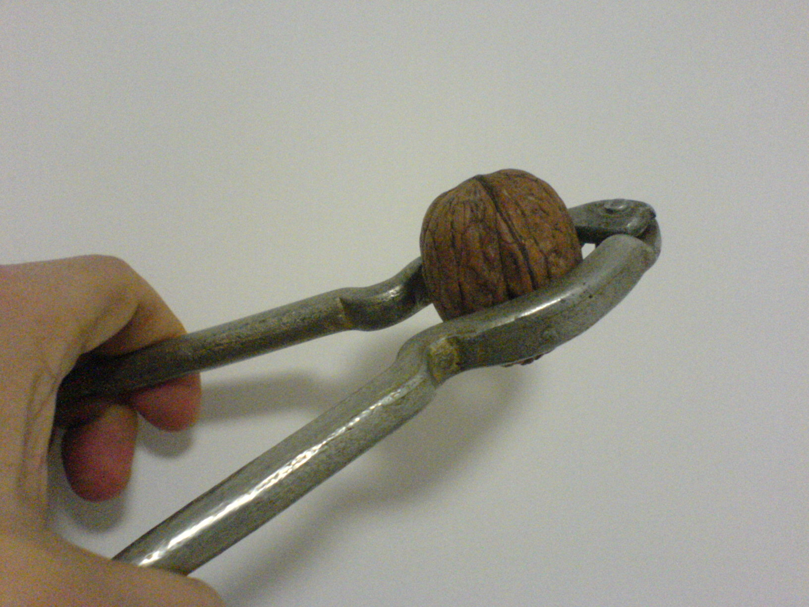 using the nutcracker